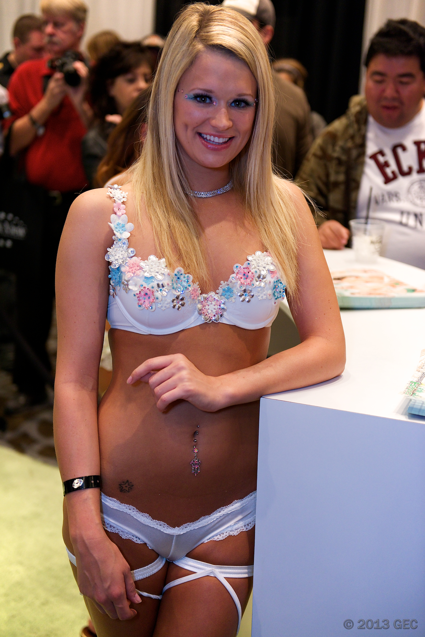 2013 AVN Adult Entertainment Expo AEE at Hard Rock Hotel - Las Vegas. 2013 © GEC.